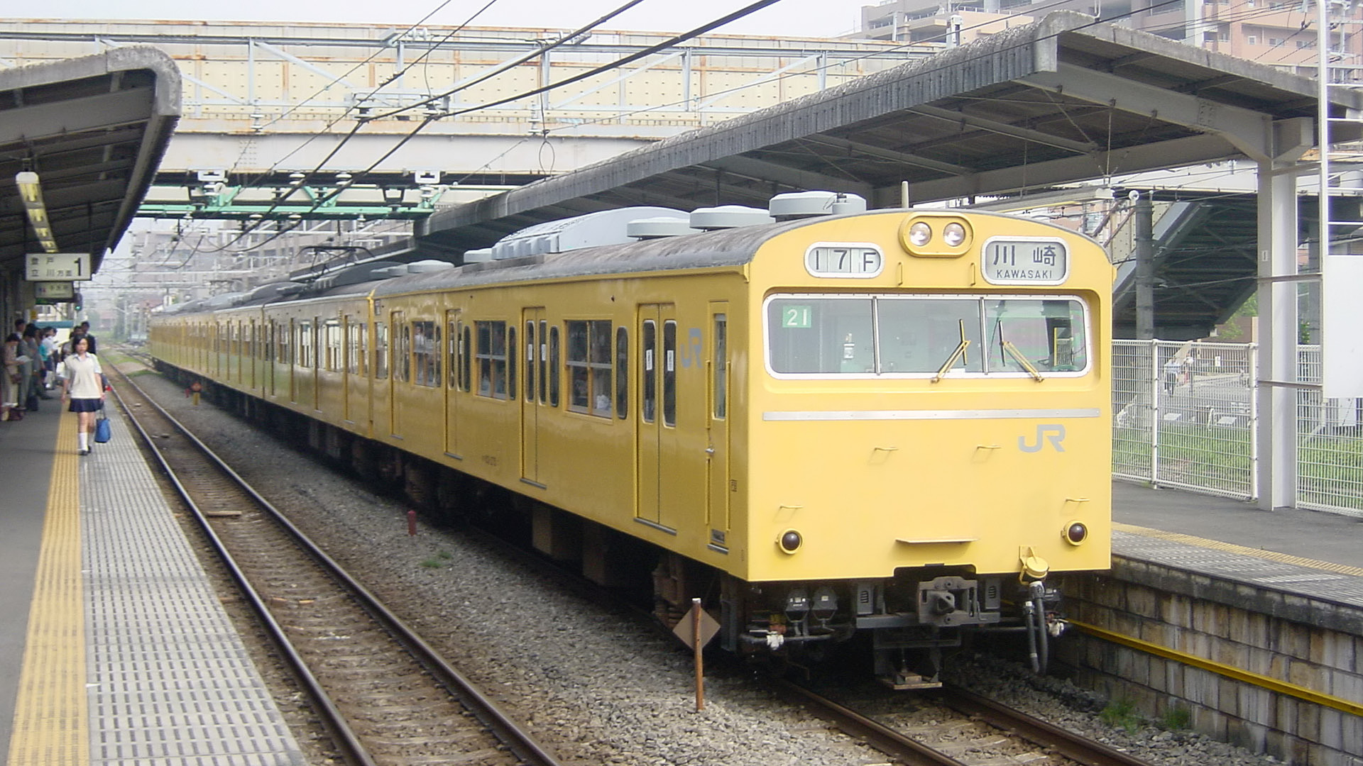 JR East 103 series set 21 on a Nambu Line service at Shukugawara Station